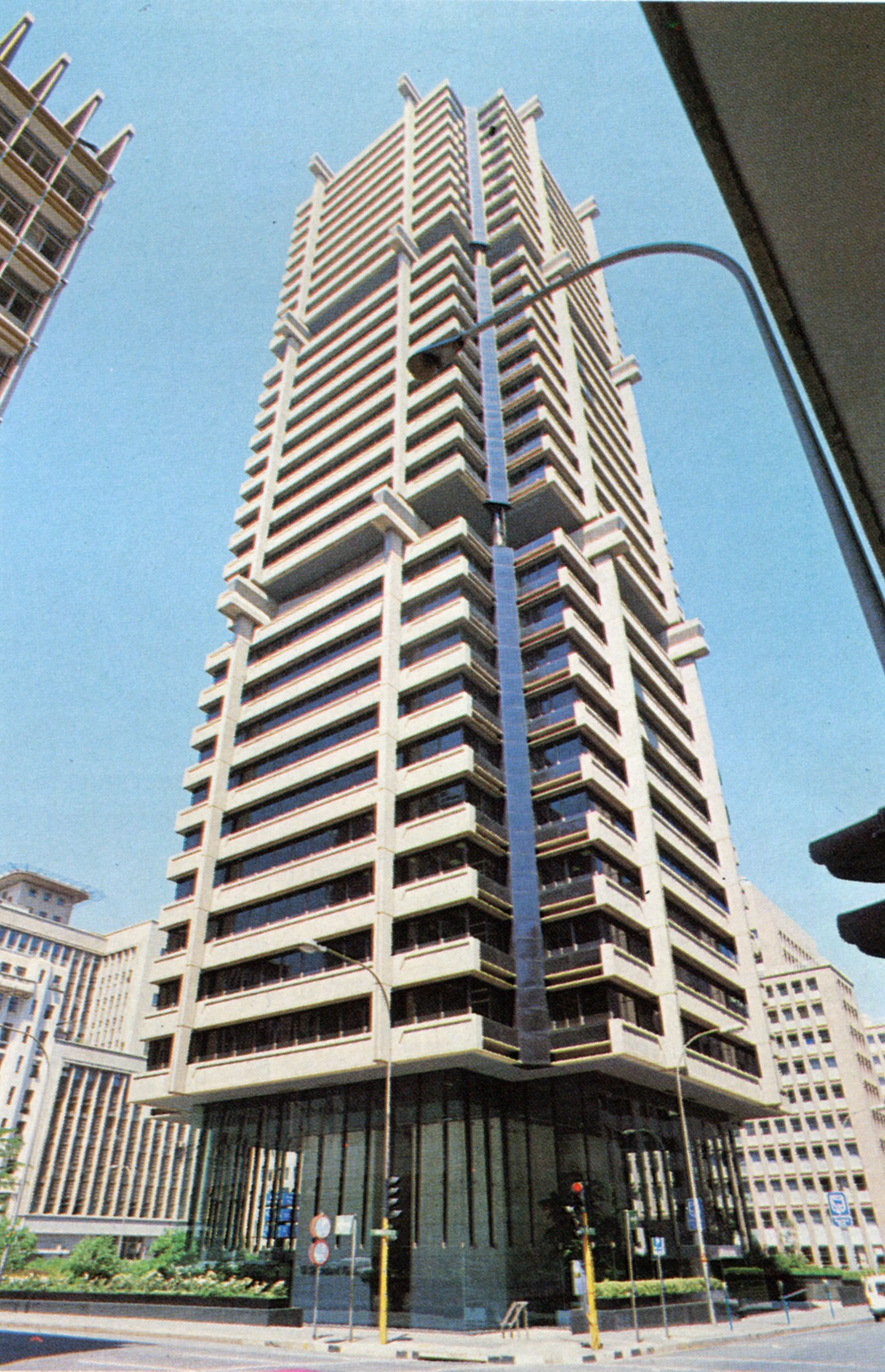 This is the Standard bank centre in the city of Johannesburg South Africa